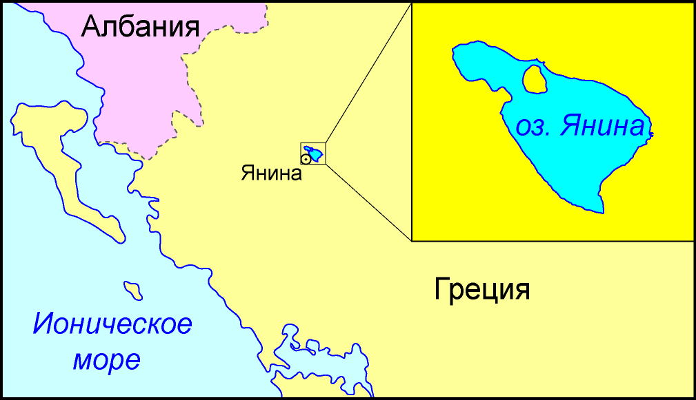 Map of island of Ioannina (Greece)